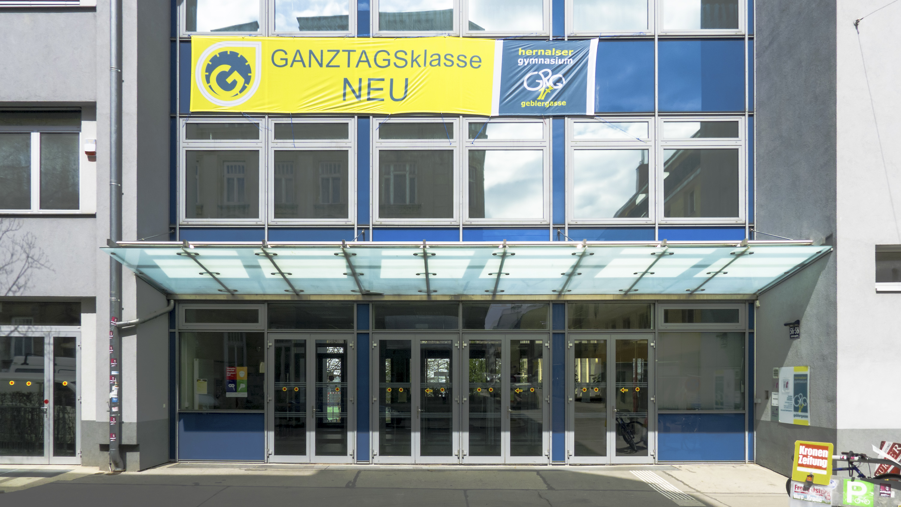 High school Hernalser Gymnasium Geblergasse in Vienna 17